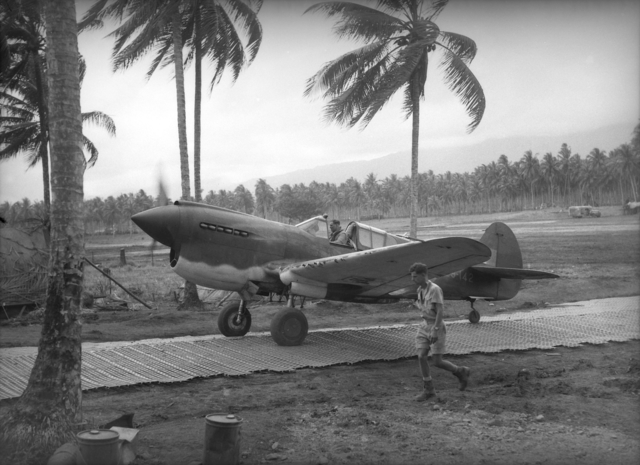 AWM caption : MILNE BAY, PAPUA. 1942-09. SQUADRON LEADER K.W. TRUSCOTT, COMMANDING OFFICER OF 76 SQUADRON RAAF, RETURNS FROM AN OPERATIONAL FLIGHT AND TAXIS UP THE METAL RUNWAY TO THE DISPERSAL BAYS SET IN AMONG THE COCONUT PALMS. Note : the aircraft is a P-40 Kittyhawk.